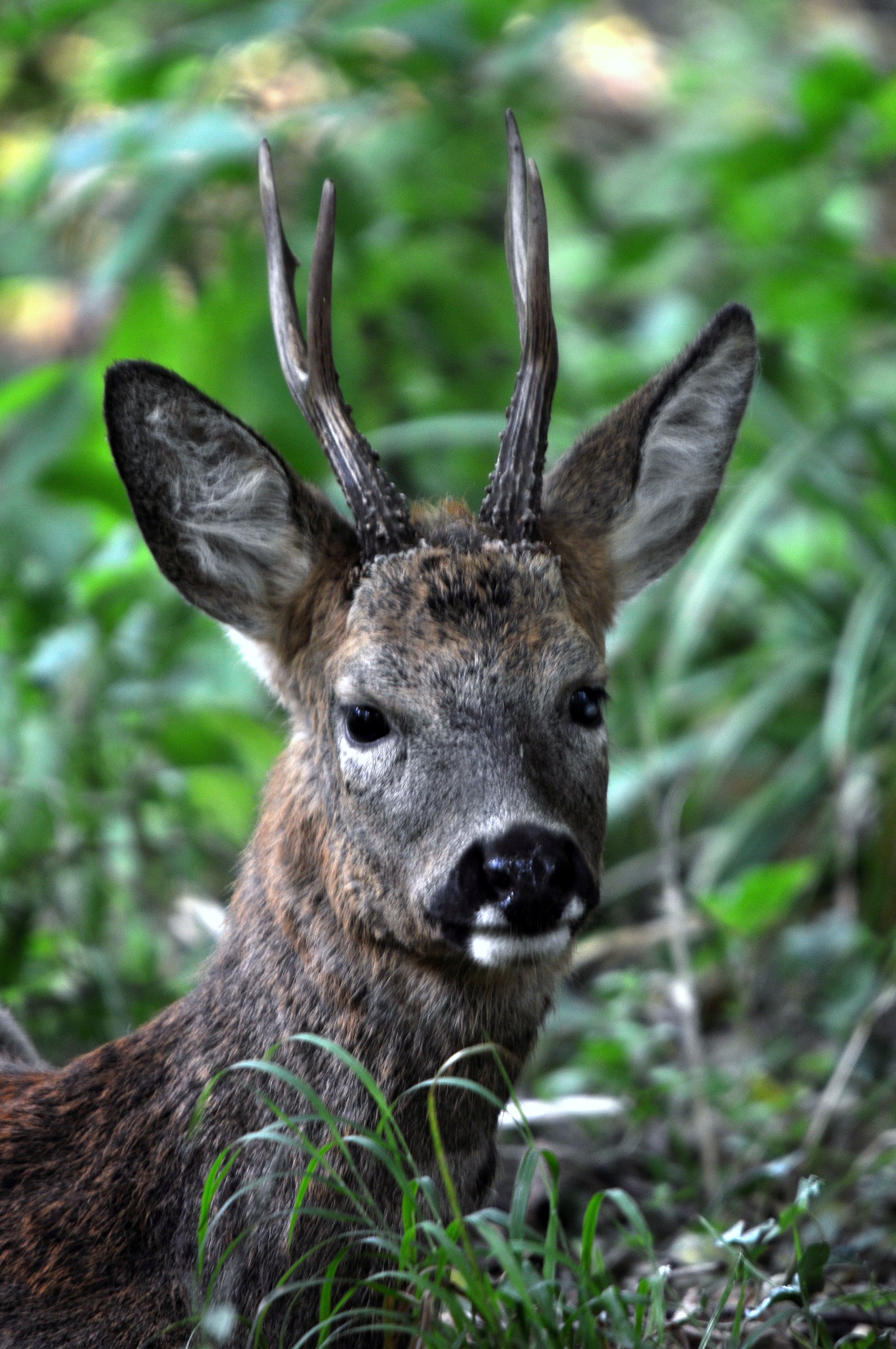 roe buck local woods Mansbridge